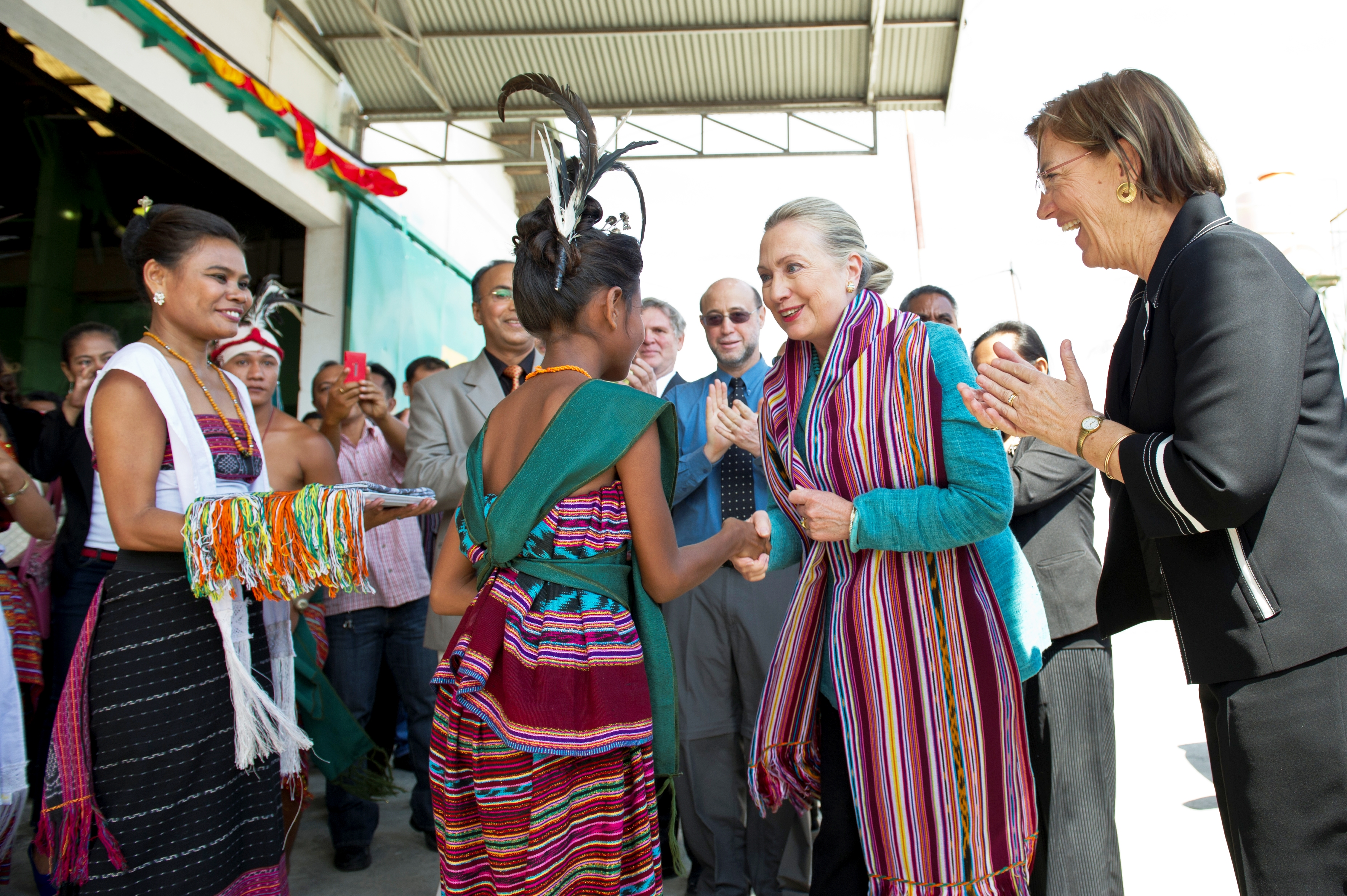 U.S. Secretary of State Hillary Clinton, accompanied by U.S. Ambassador to Timor-Leste Judith R. Fergin, is greeted by traditional dancers at the Cooperativa Cafe Timor in Dili, Timor-Leste, September 6, 2012. Established in 1994 with the support of USAID, the self-supporting cooperative has now expanded to vanilla, clove, cacao, and cassava production for export. [UNMIT photo by Bernardino Soares]